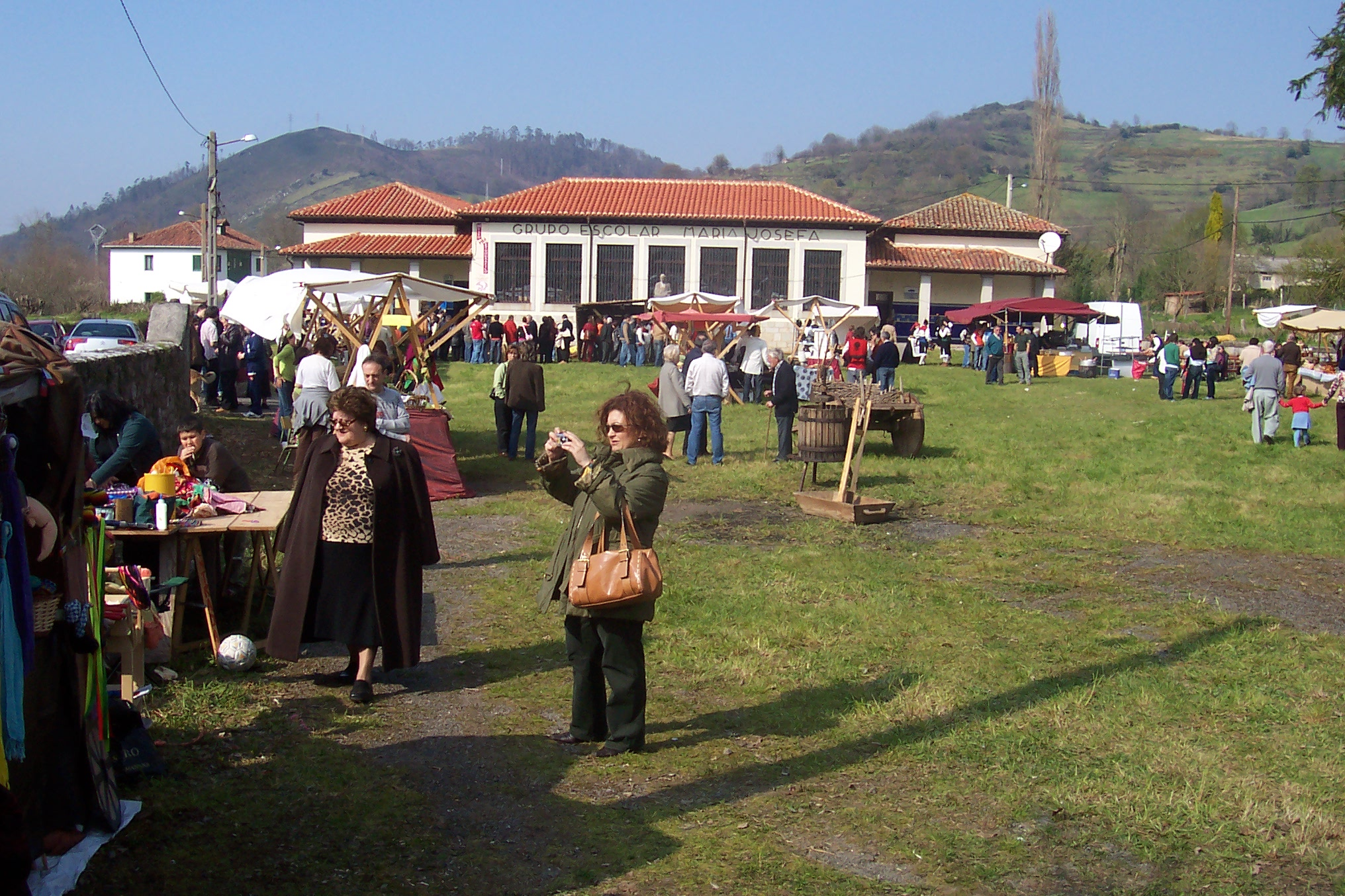 mercao